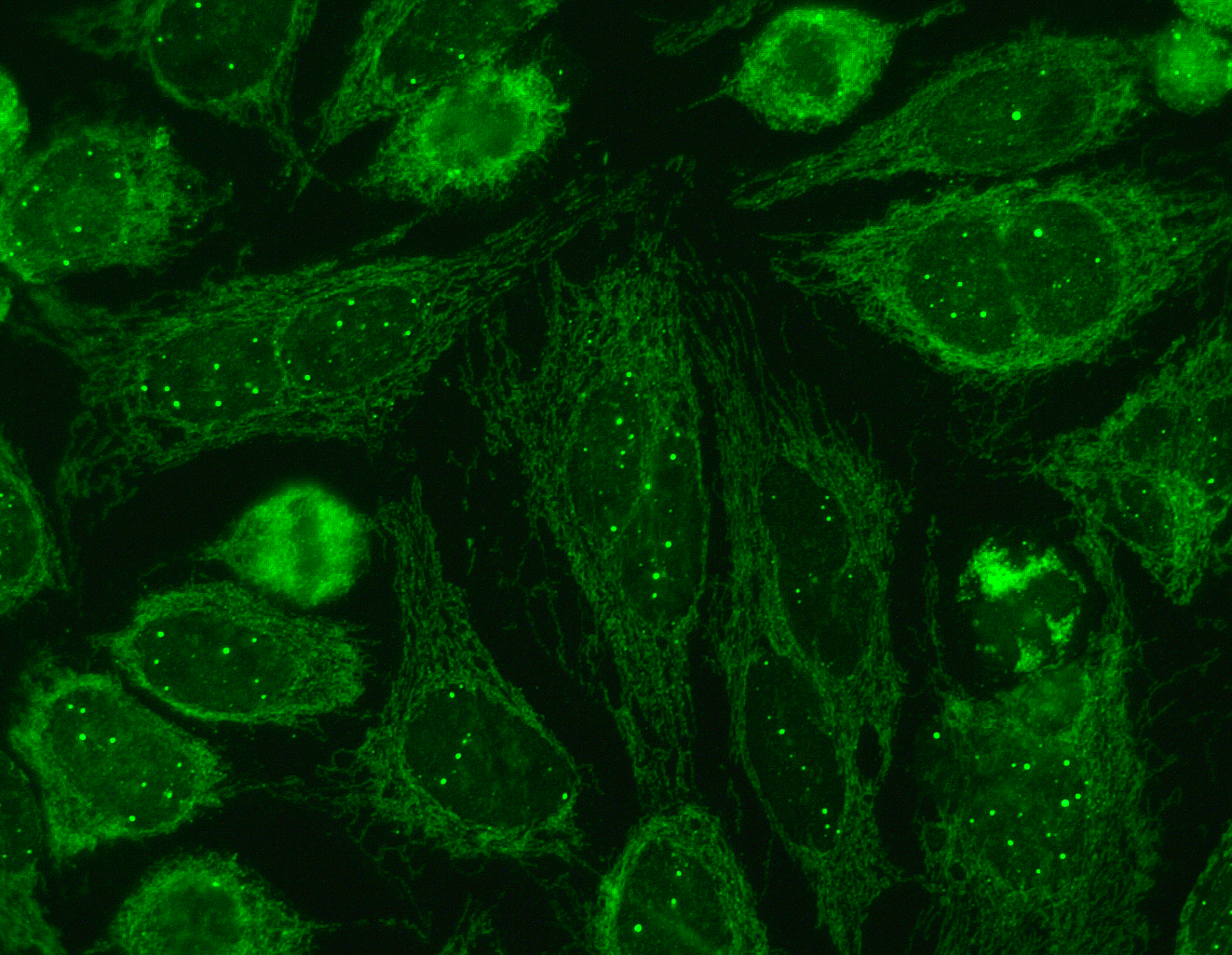 Immunofluorescence pattern of sp100 and anti-mitochondrial antibodies. Produced using serum from a patient on HEp-20-10 cells with a FITC conjugate.